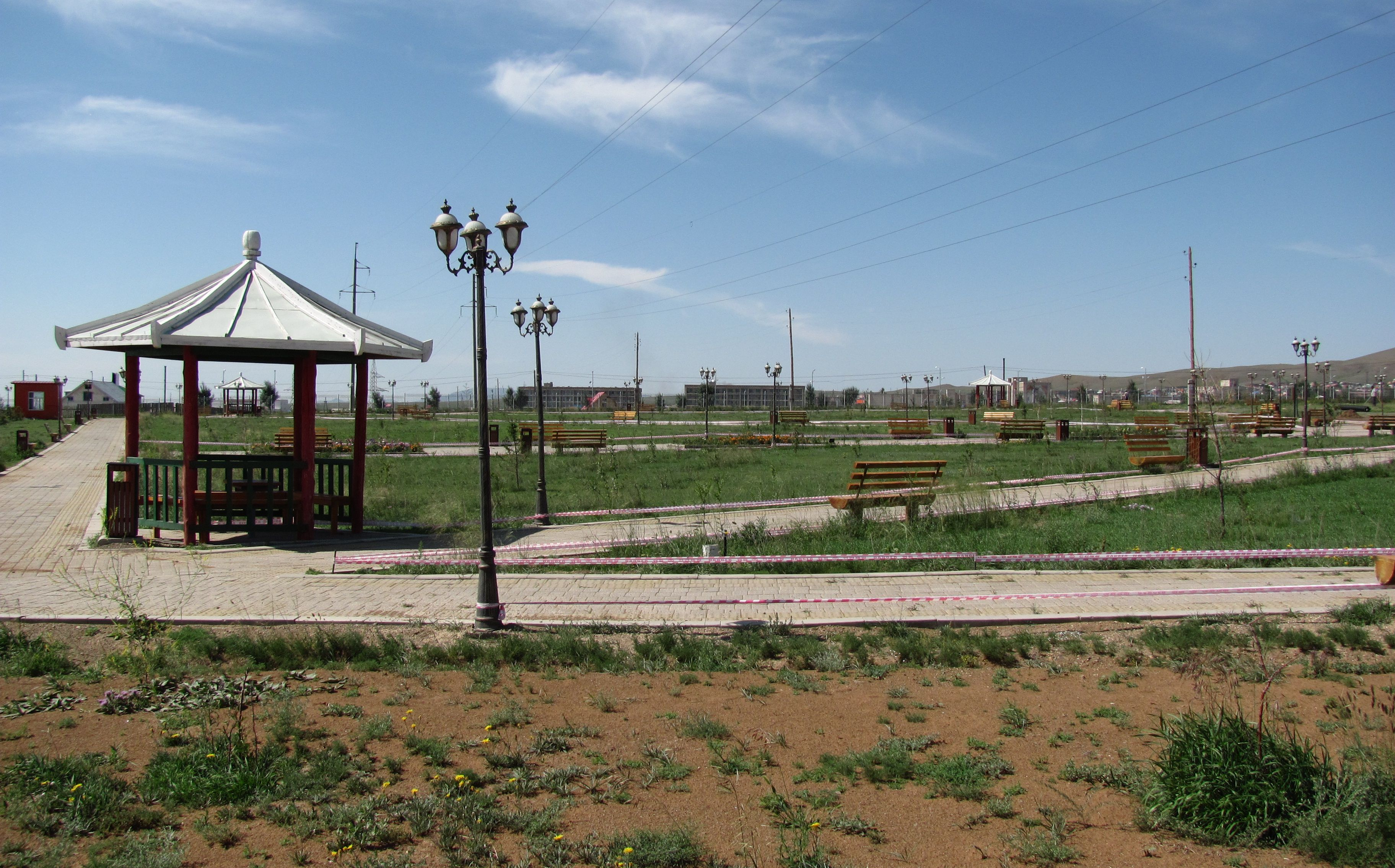 Public Park, Arvaikheer, Mongolia.